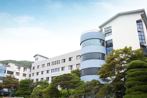 University photo